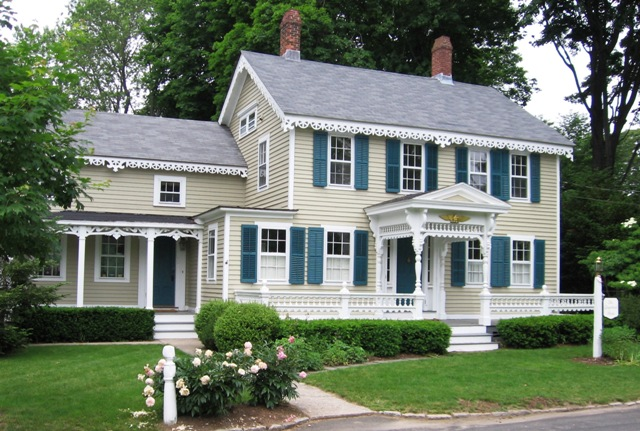 Picture of the "Gingerbread House" in Essex, Connecticut, USA